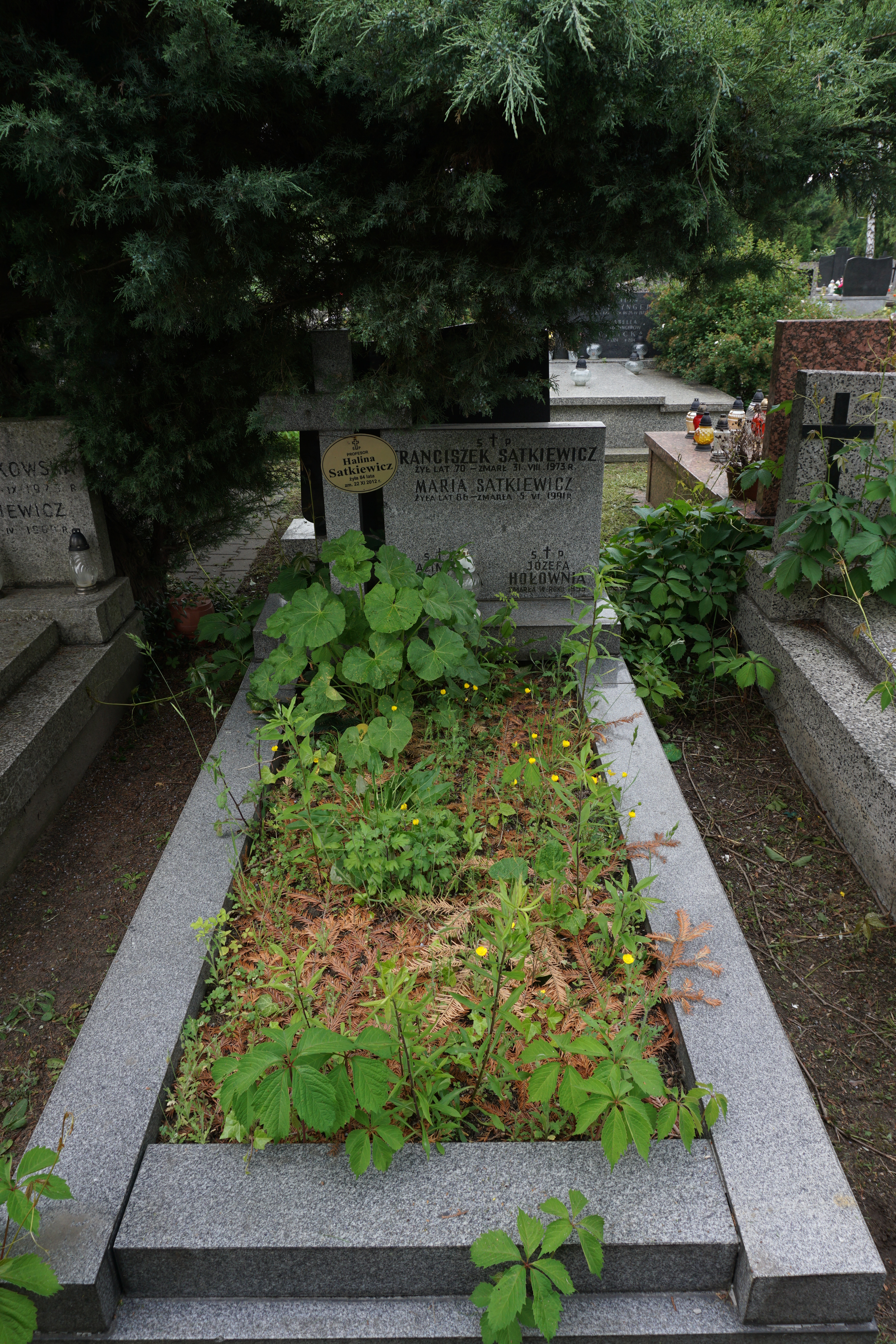 The grave of Aloiza Halina Satkiewicz at the North Municipal Cemetery in Warsaw (section E-X-6, row 7, grave 2)